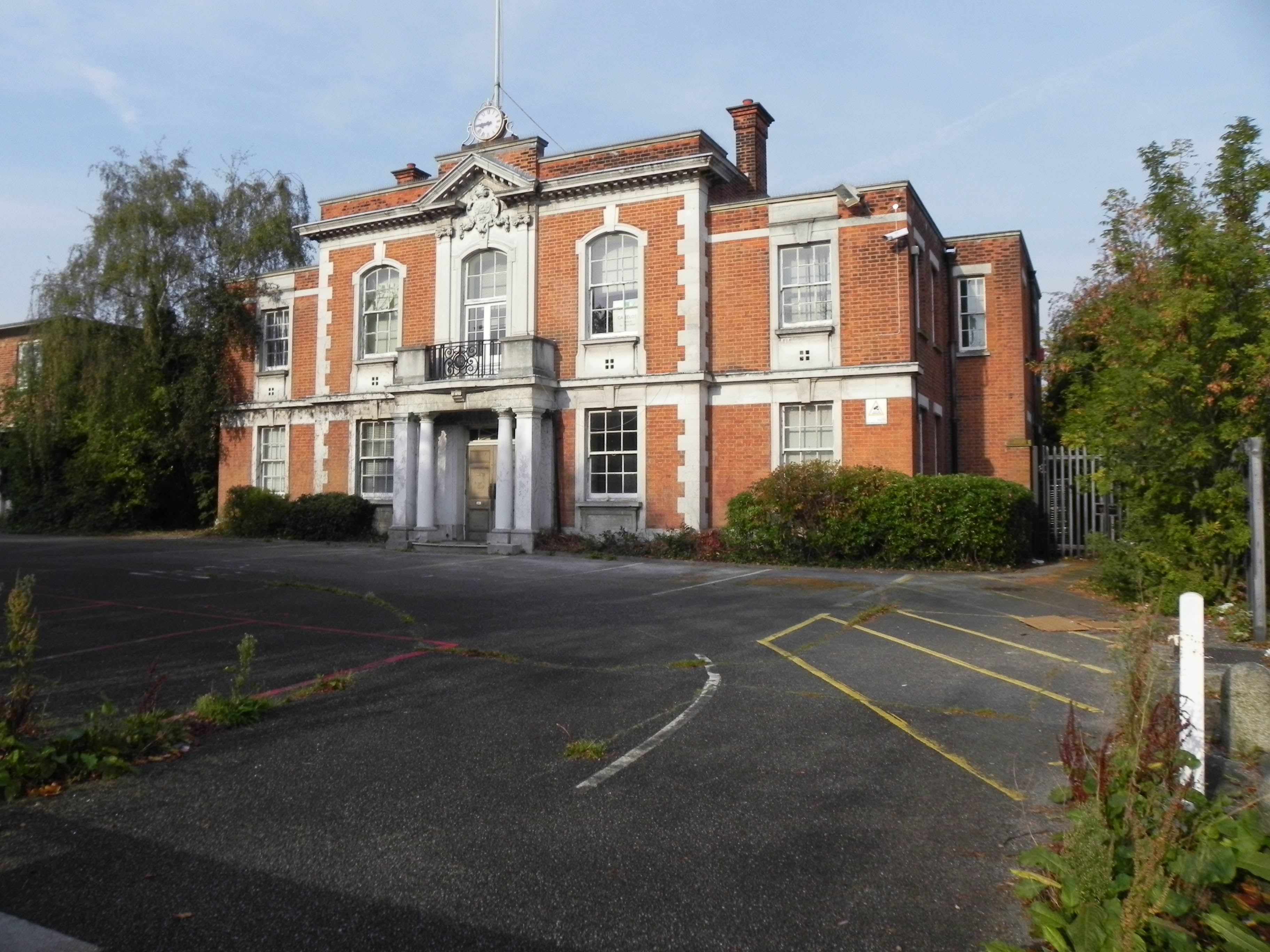 Chingford Old Town Hall Building, The Ridgeway, Chingford, London, UK. Also known as the Chingford Municipal Offices. Built 1929.